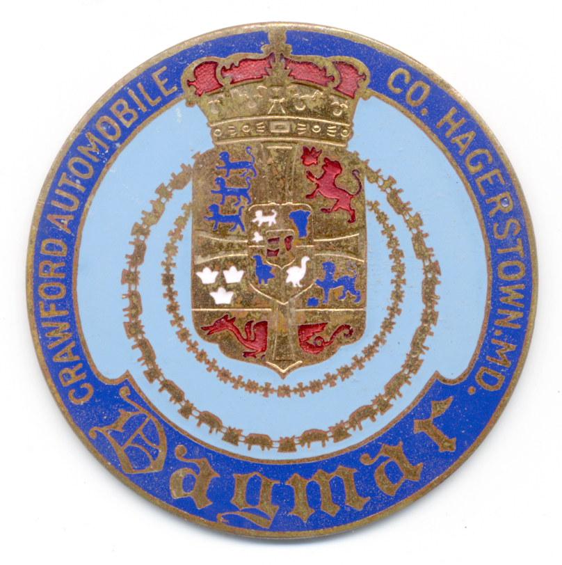 This is the radiator emblem from a Dagmar car manufactured by the Crawford Automobile Company in Hagerstown MD, as used between 1922 and 1924. This is a scan of an item in my personal collection.